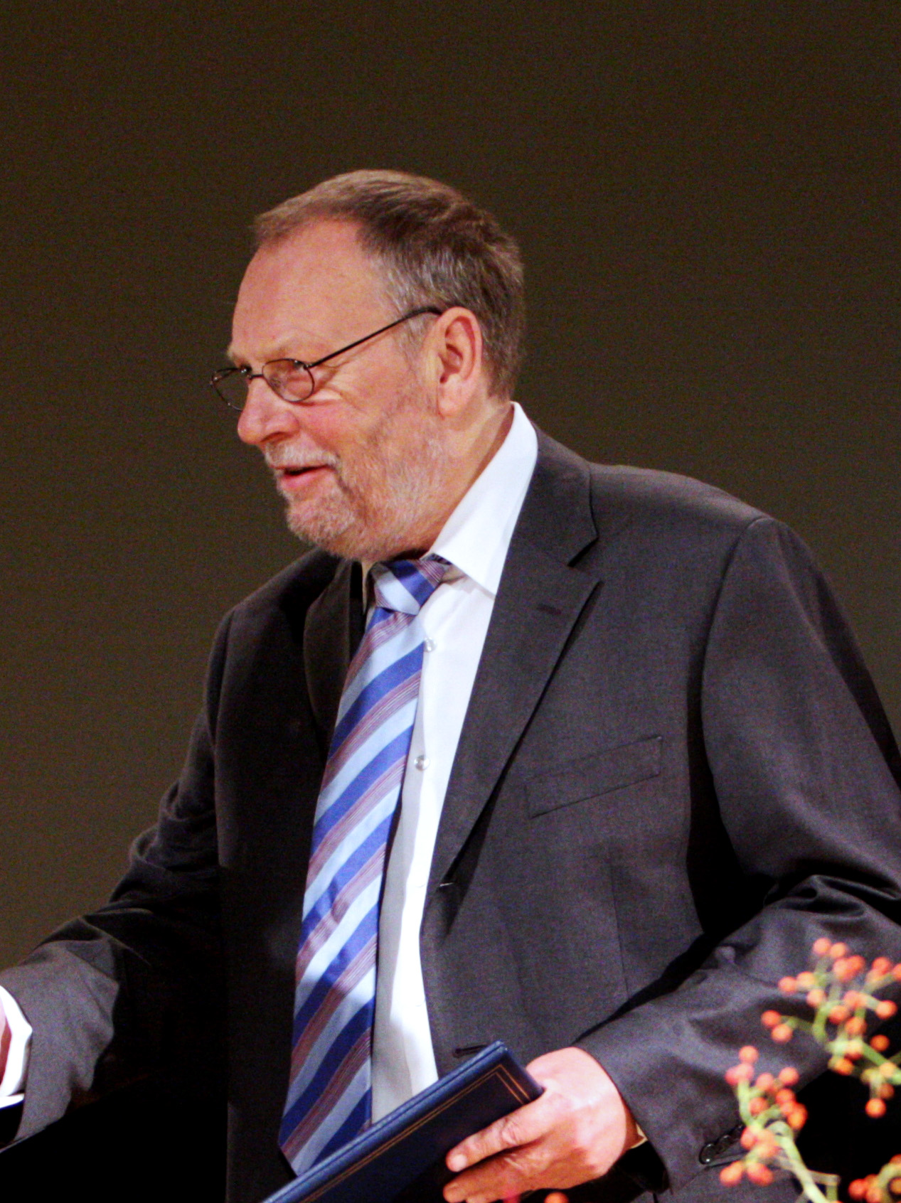 Mayor Finn Aaberg and environmental consultant Anita Monnerup Pedersen from Albert Lund receive the Nordic Council Environment Prize in Oslo by Dagfinn Höybråten. 2007-10-31. Photo: Magnus Fröderberg / .